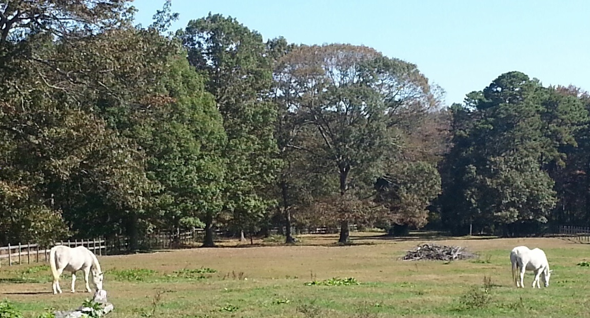 A picture of Lipizzan horses at Southwind Vineyard & Winery in Deerfield, NJ. Besides making wine, Southwind offers horse boarding and hunter pacing.